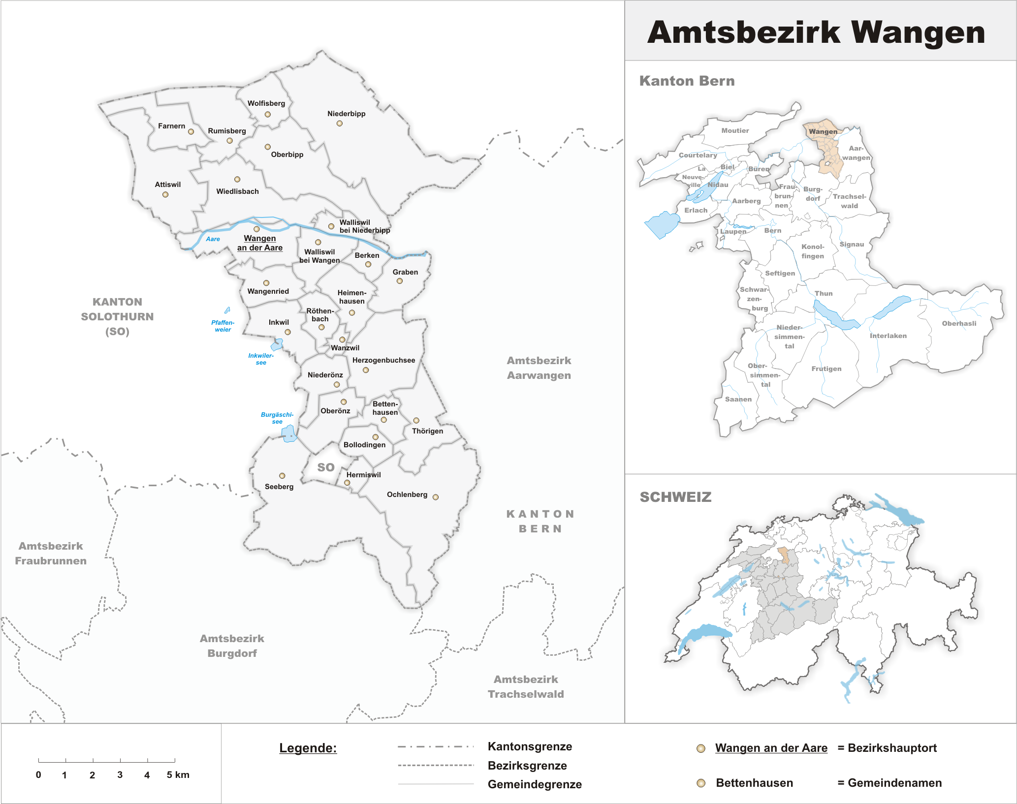 Municipalities in the district of Wangen until 2007